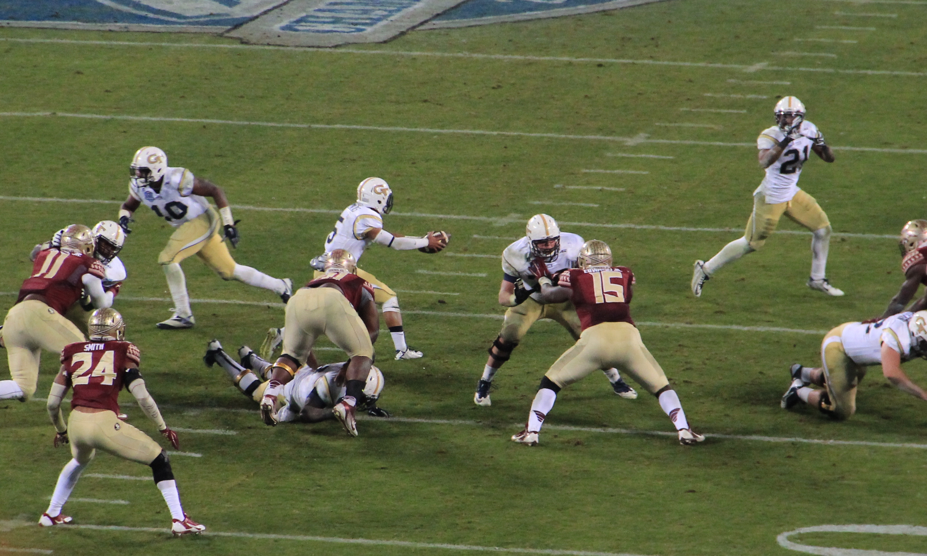 Justin Thomas pitch to Charles Perkins